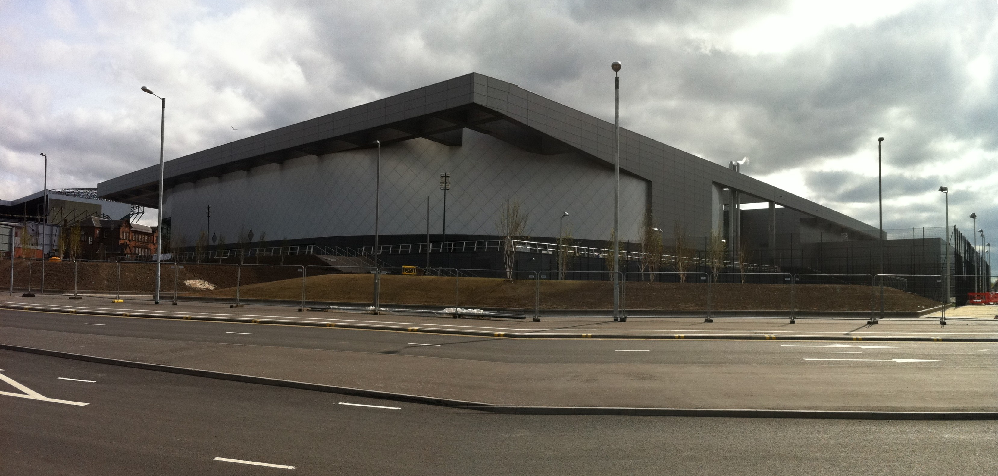 The Scottish National Indoor Sports Arena and Sir Chris Hoy Velodrome under construction in April 2012. The shape of the velodrome can be clearly seen.